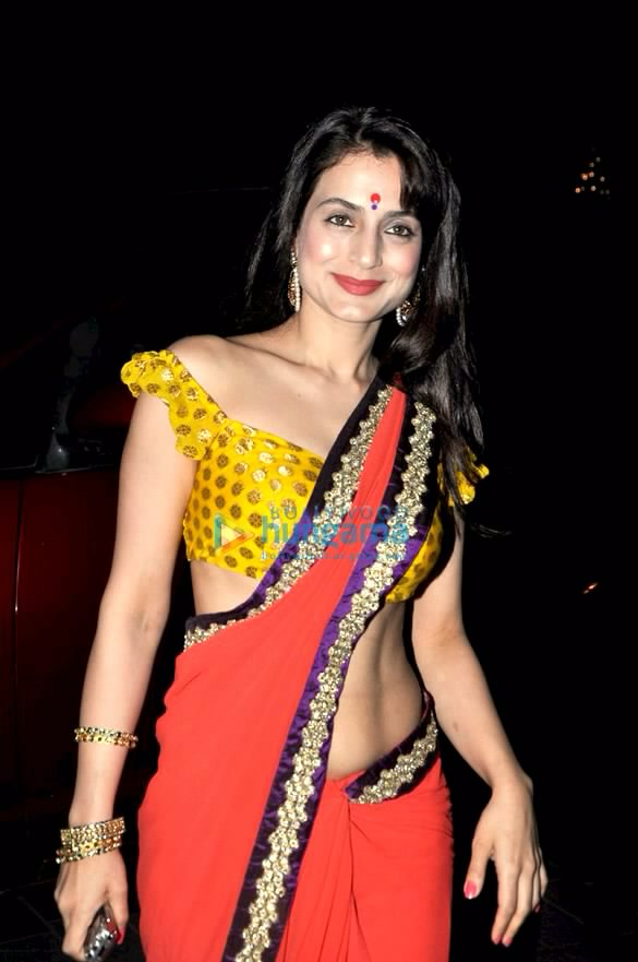 Ameesha Patel at Abhinav & Ashima Shukla's wedding reception